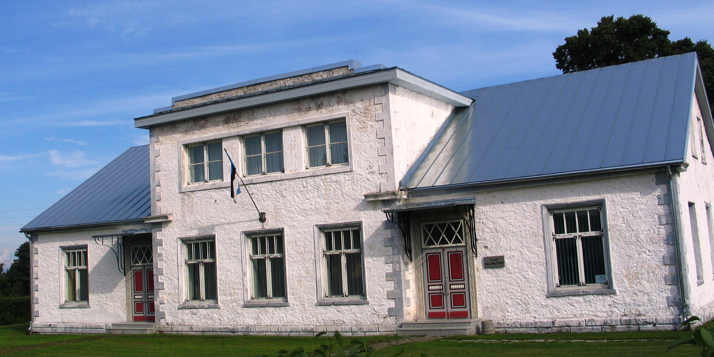 The house of Salme Parish